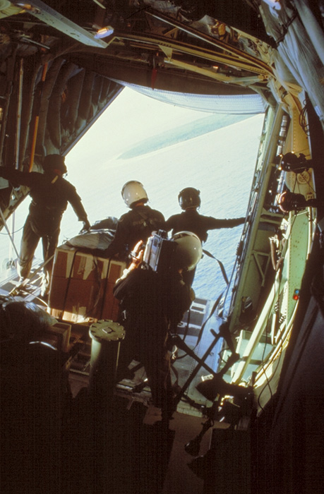 Photo taken during the 1986 Christmas Drop out of Andersen Air Force Base, Guam. WC-130 with the 54th Weather Squadron. The photo was taken as part of an Air Force Art Program tour.